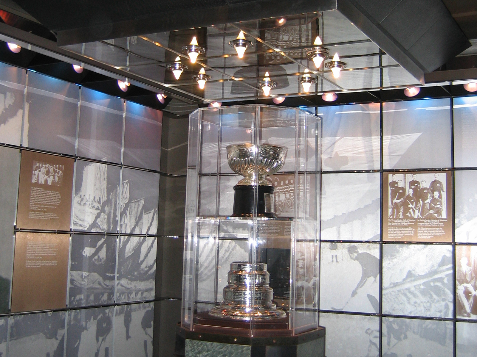 Original Stanley Cup in the bank vault at the Hockey Hall of Fame.